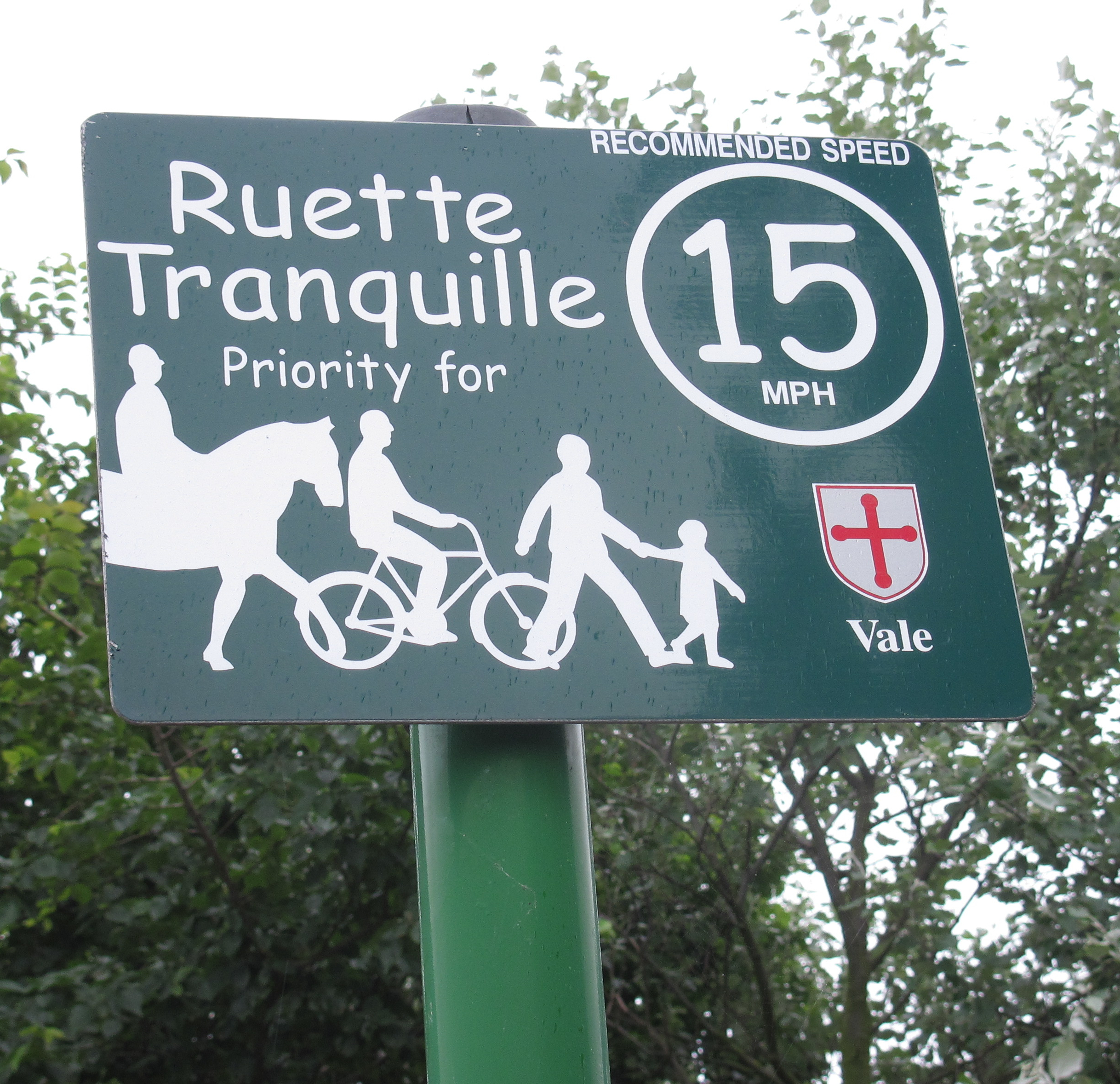 Guernsey, 2 July 2010: road sign